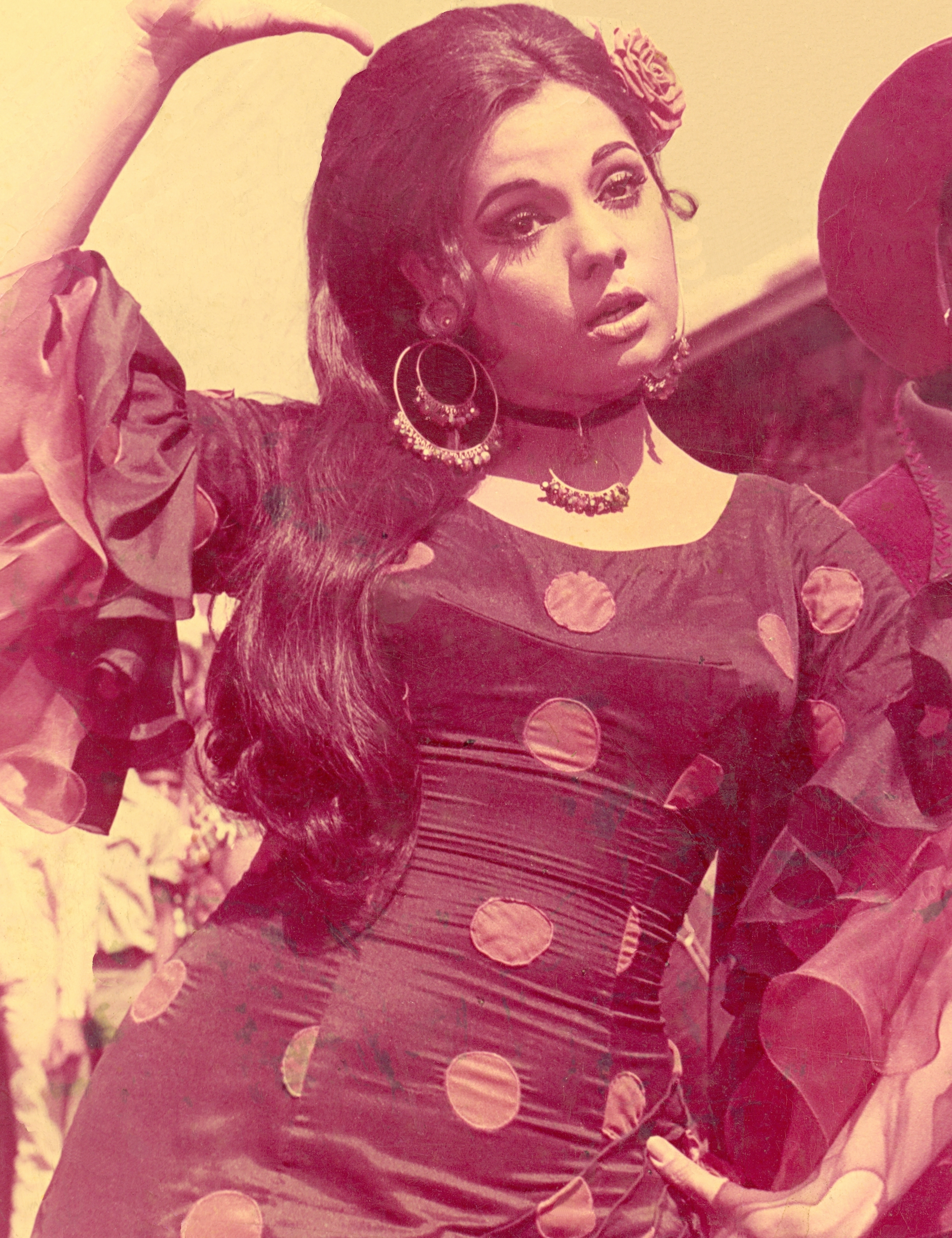 Photo of Mumtaz (actress)